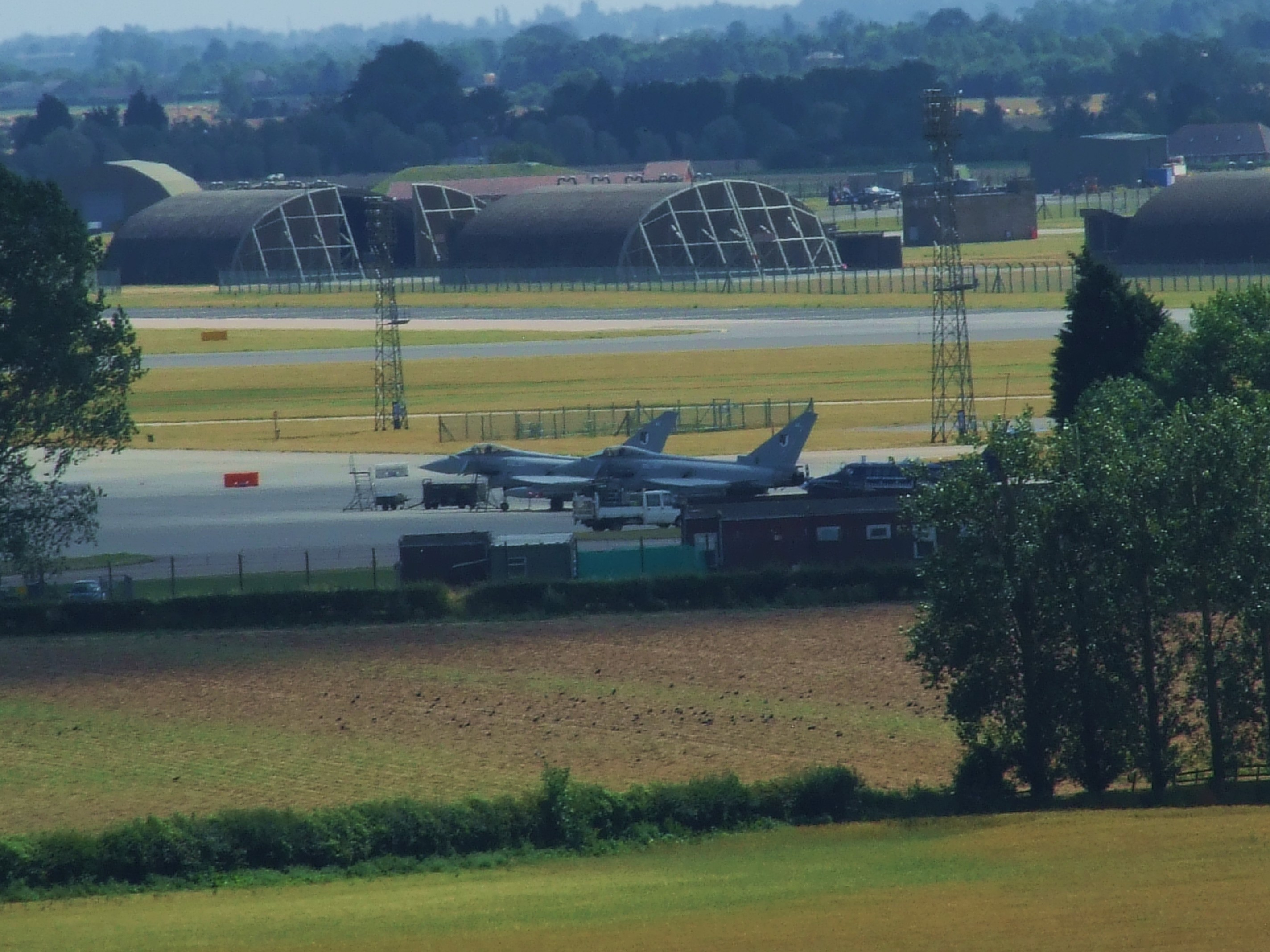 Long Lens View of RAF Coningsby taken from the top of Tattershall Castle